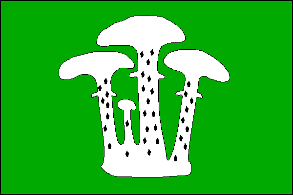 Municipal flag of Václavy , District Rakovník, Czech Republic